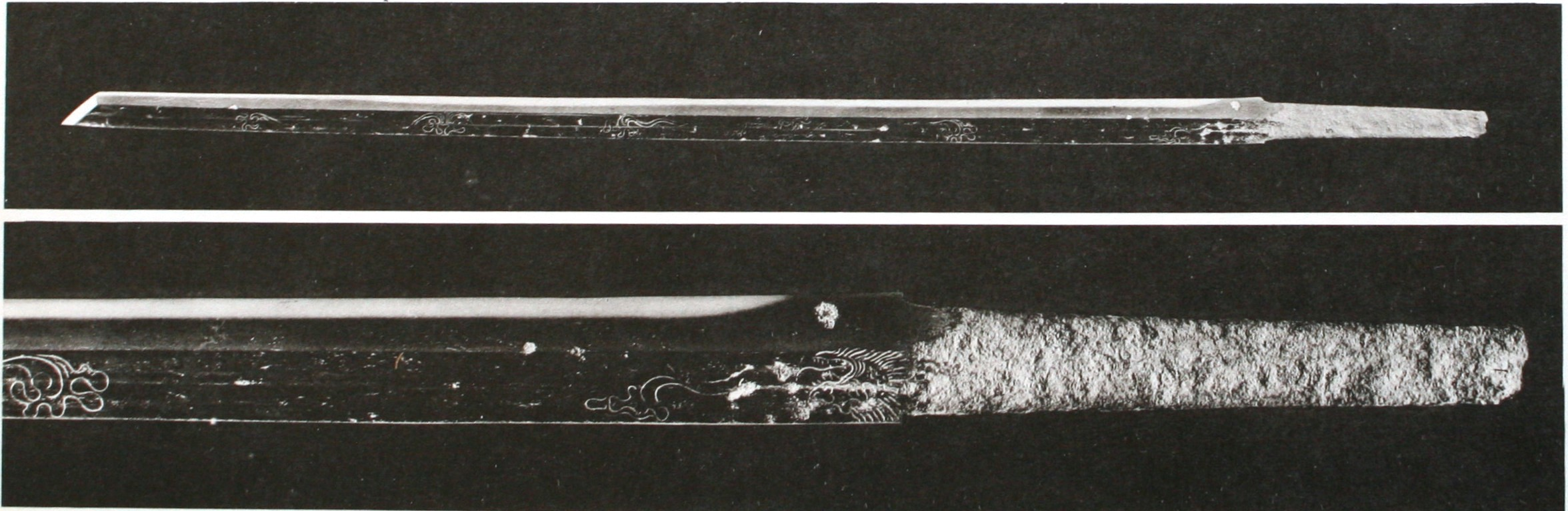 Great Bear sword or Seven Stars Sword, The sword contains a gold inlay of clouds and seven stars forming the Great Bear constellation. According to a document at Shitennō-ji, this sword was owned by Prince Shōtoku., Asuka period, 7th century , 62.1 cm (24.4 in) Osaka Shitennō-ji, Osaka, Japan